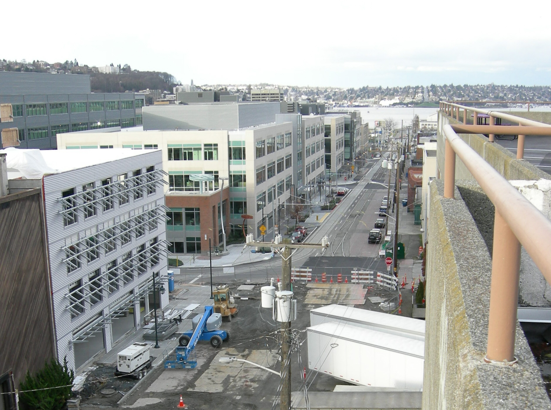 Looking north on Terry Ave N in the South Lake Union neighborhood of Seattle, Washington, USA. Some of the railroad tracks are old and disused; others are for the new (2007) streetcar.